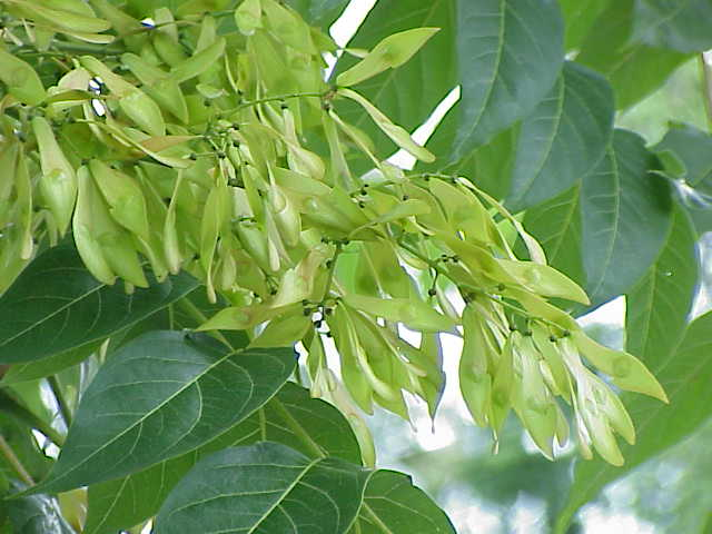 Species: Ailanthus altissima Family: Simaroubaceae Image No. 2